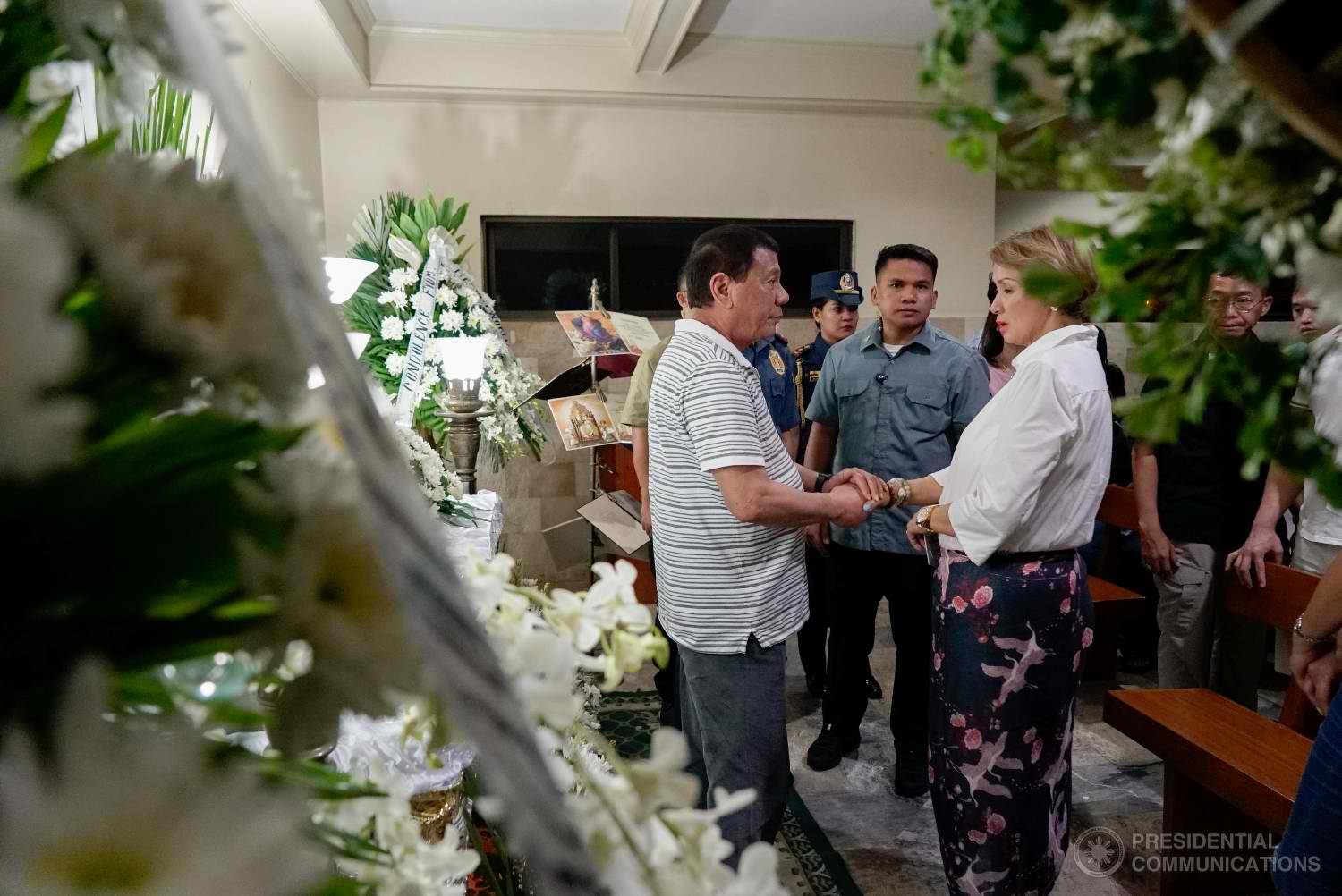 President Rodrigo Duterte condoles with actress Azenith Briones, whose husband was killed in the 2017 Resorts World Manila attack on June 2, 2017.